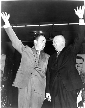 Eisenhower and Nixon in 1956